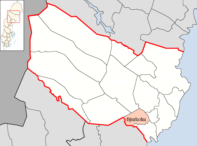 Bjurholm Municipality in Västerbotten County Designed by me. Mere outlines are a PD source from